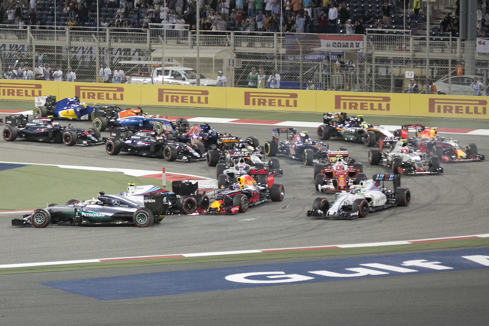 Start at the 2016 Bahrain Grand Prix